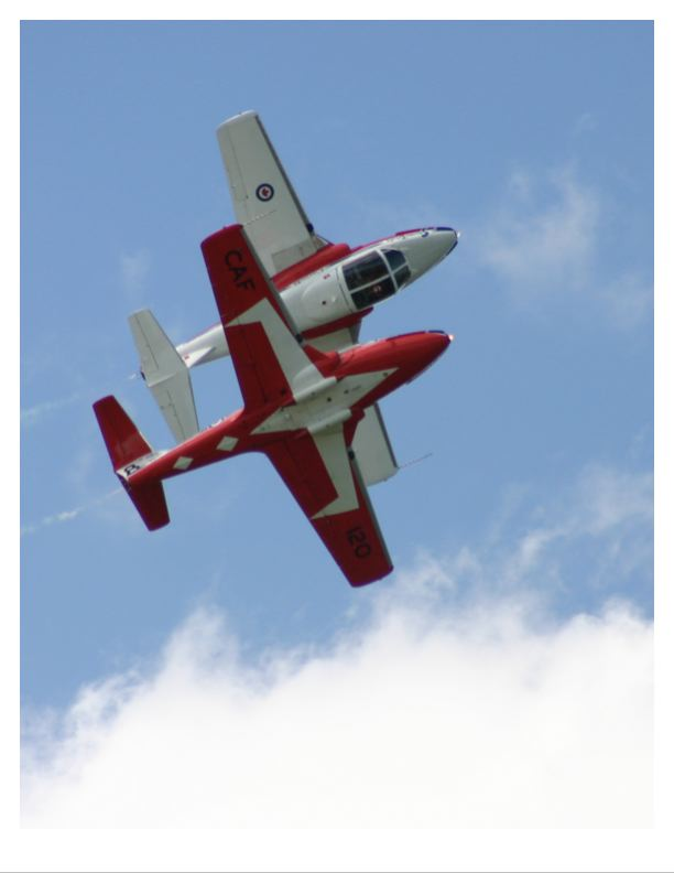 Snowbirds (two)